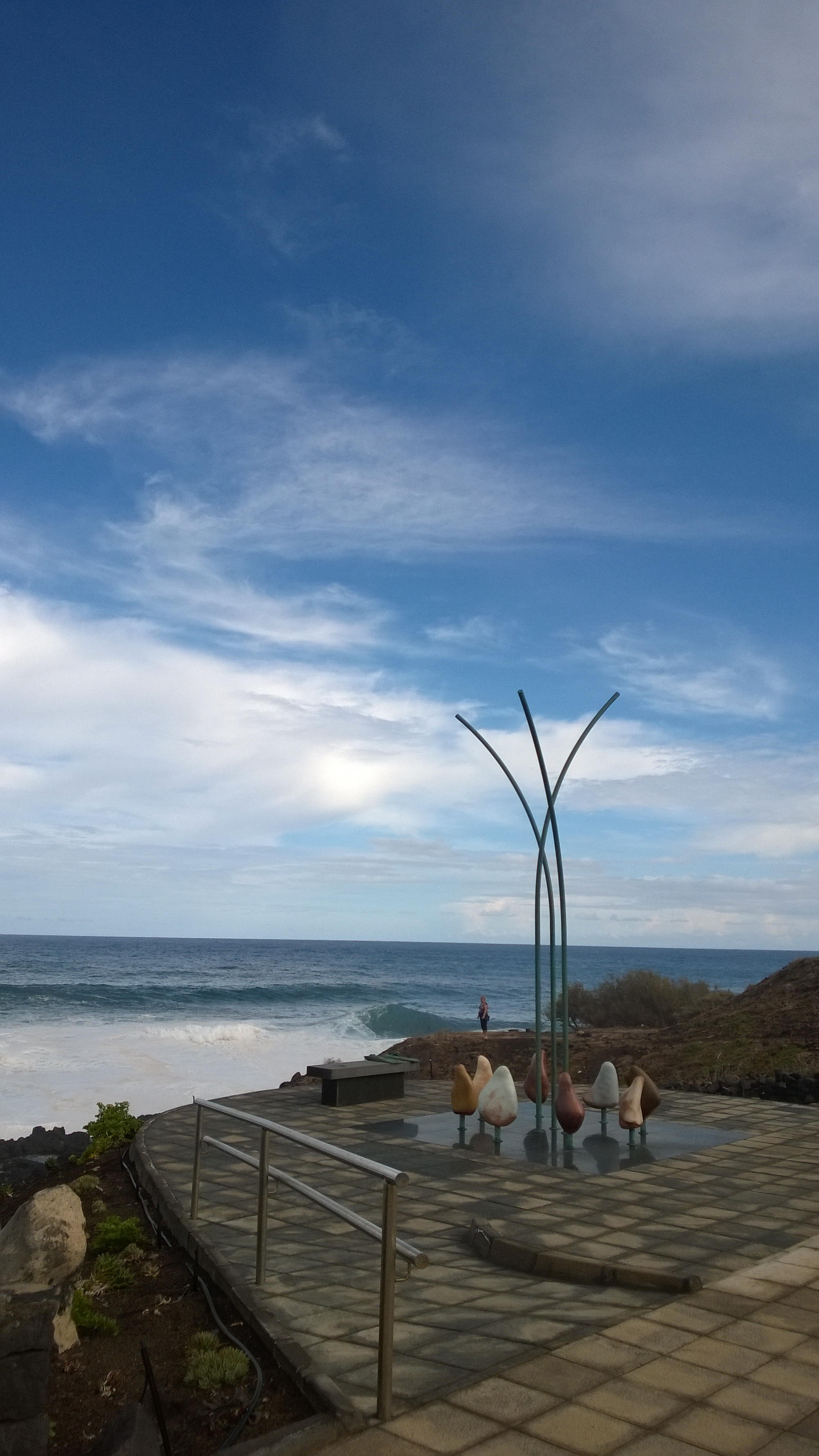 A memorial statue named "El olivo del océano" (The olive tree of the ocean) by Juan Alberto Fernández (2014), at La Fajana, Barlovento, La Palma island, for Sanmao and her husband José Maria Quero.